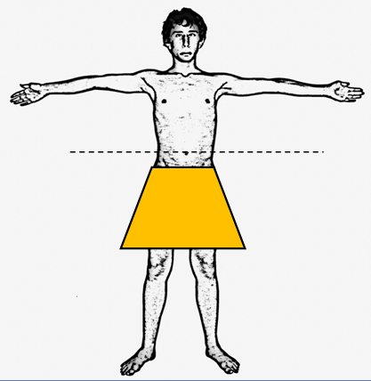 a human male body sketch with a modesty skirt with a line through midriff